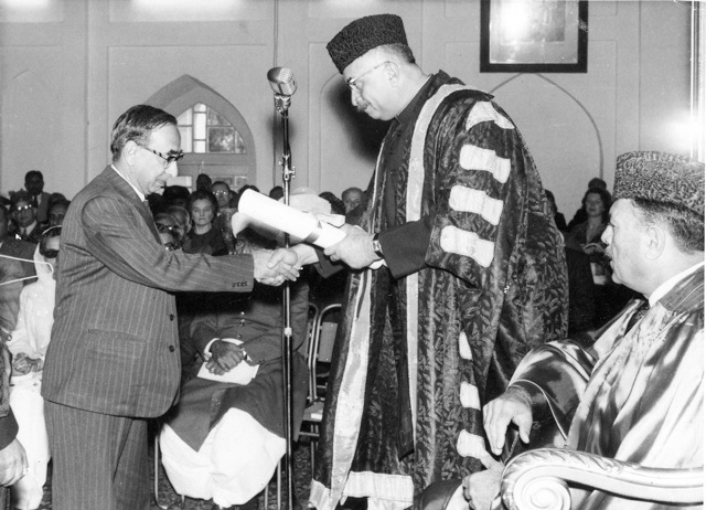 The Nawab of Kalabagh awarding an honorary doctor of letters degree at the University of Punjab, Lahore to Sheikh Muhammad Ikram. Ayub Khan (President of Pakistan) is seated at right.